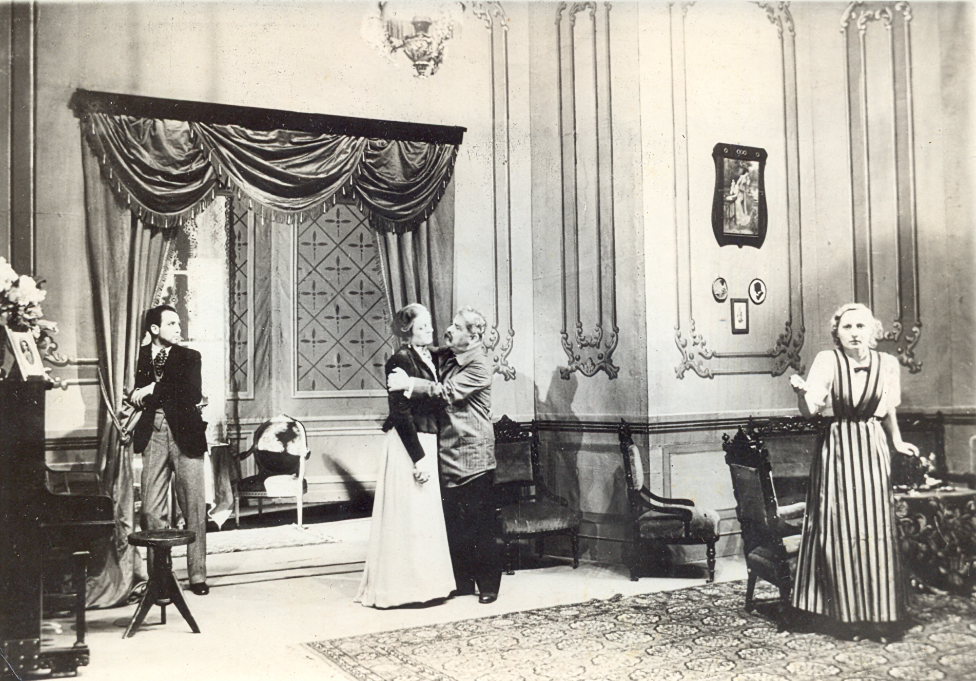 Bulgarian actors Lyuben Saev, Nevena Buyuklieva, Krustyo Sarafov and Irina Taseva staging "When Thunder Strikes" ("Kogato grum udari") by Peyo Yavorov. National Theatre, Sofia, 1939